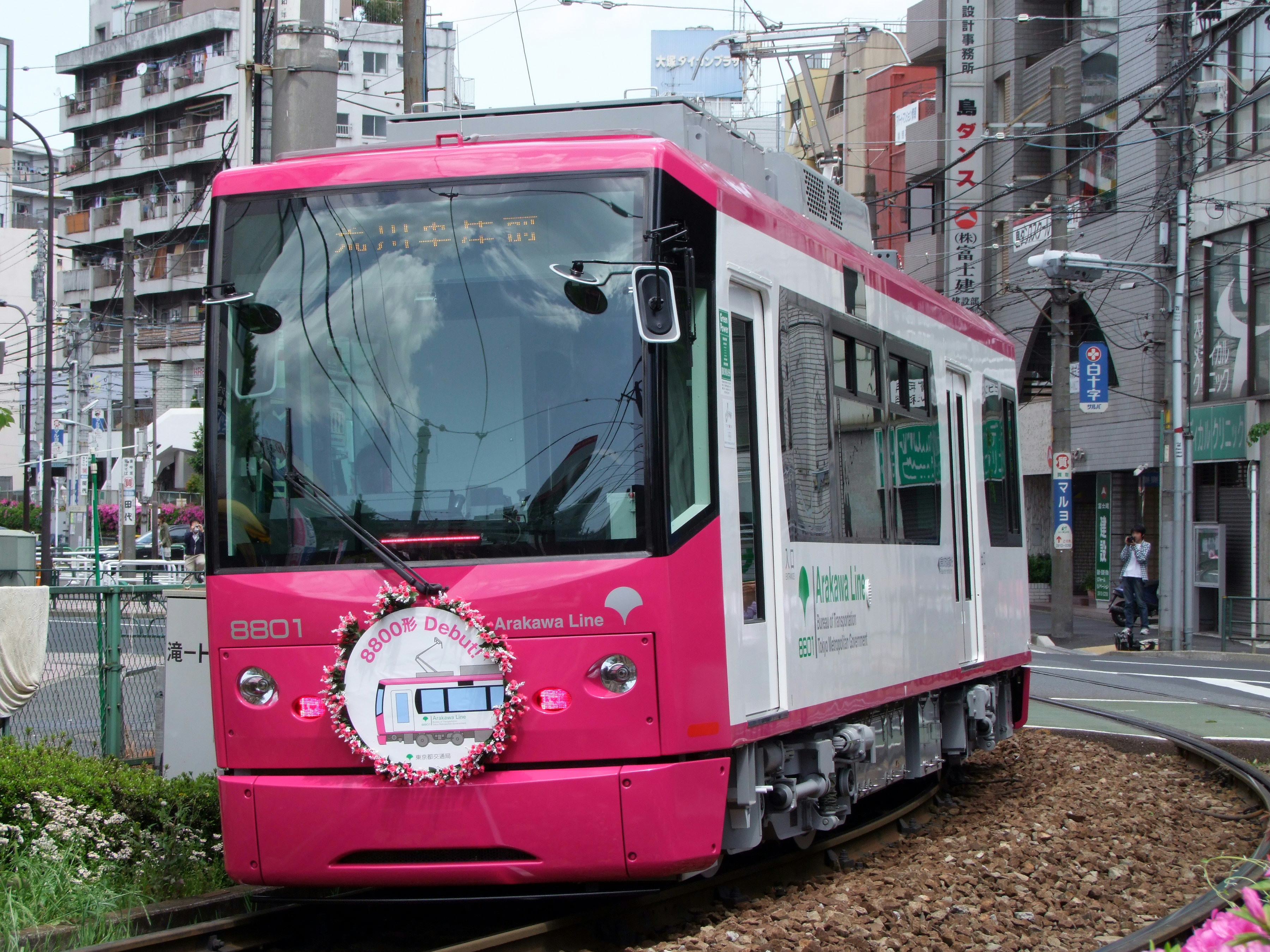 Toei 8800 series tramcar 8801 at Otsuka-Ekimae station in Toshima-ku, Tokyo